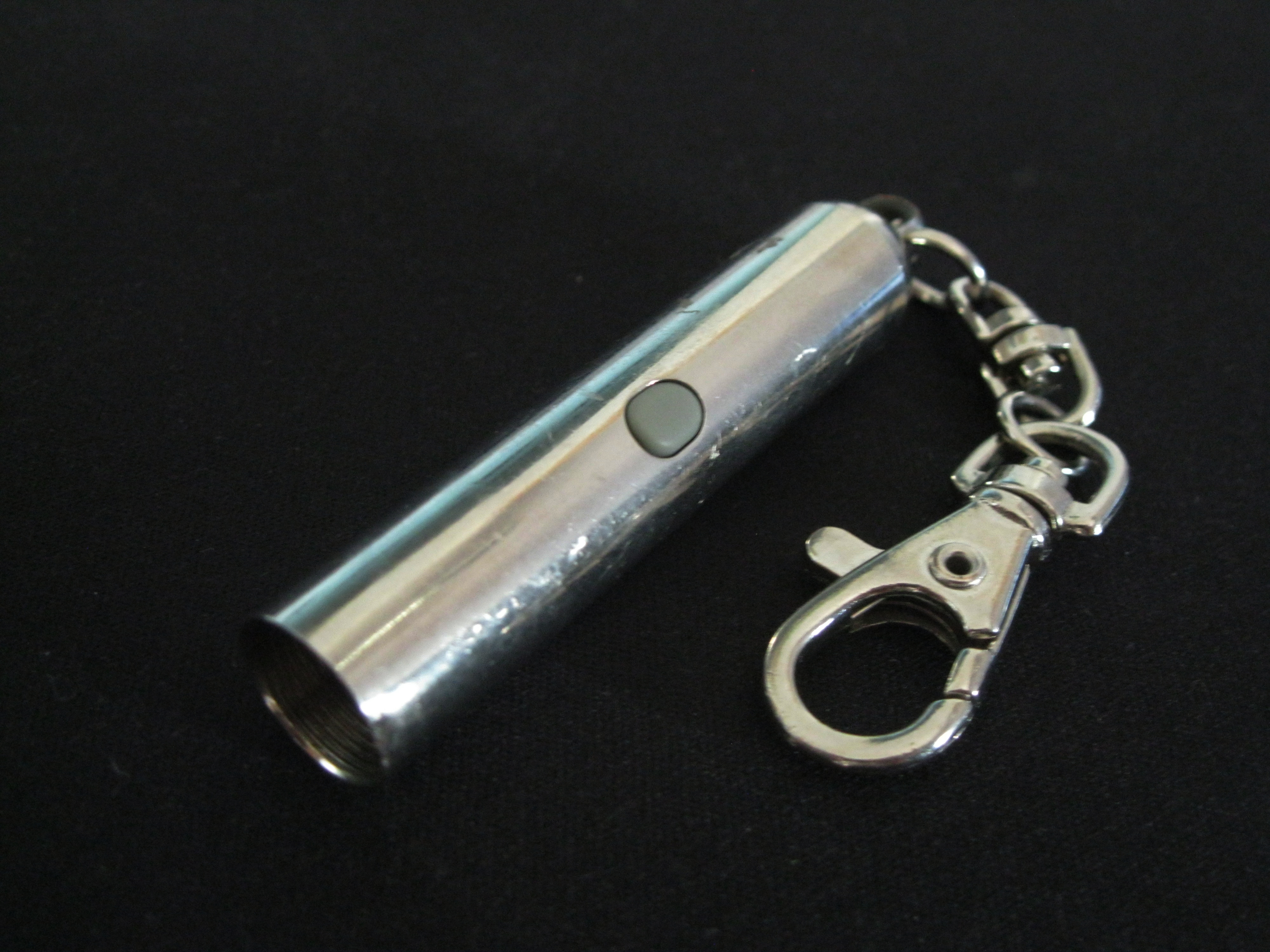 Laser pointer